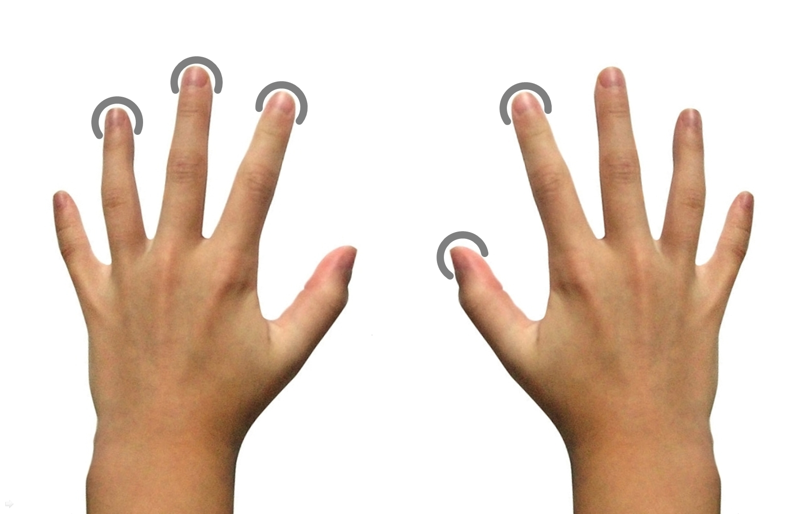 Chisanbop: pressed fingers for showing number 36